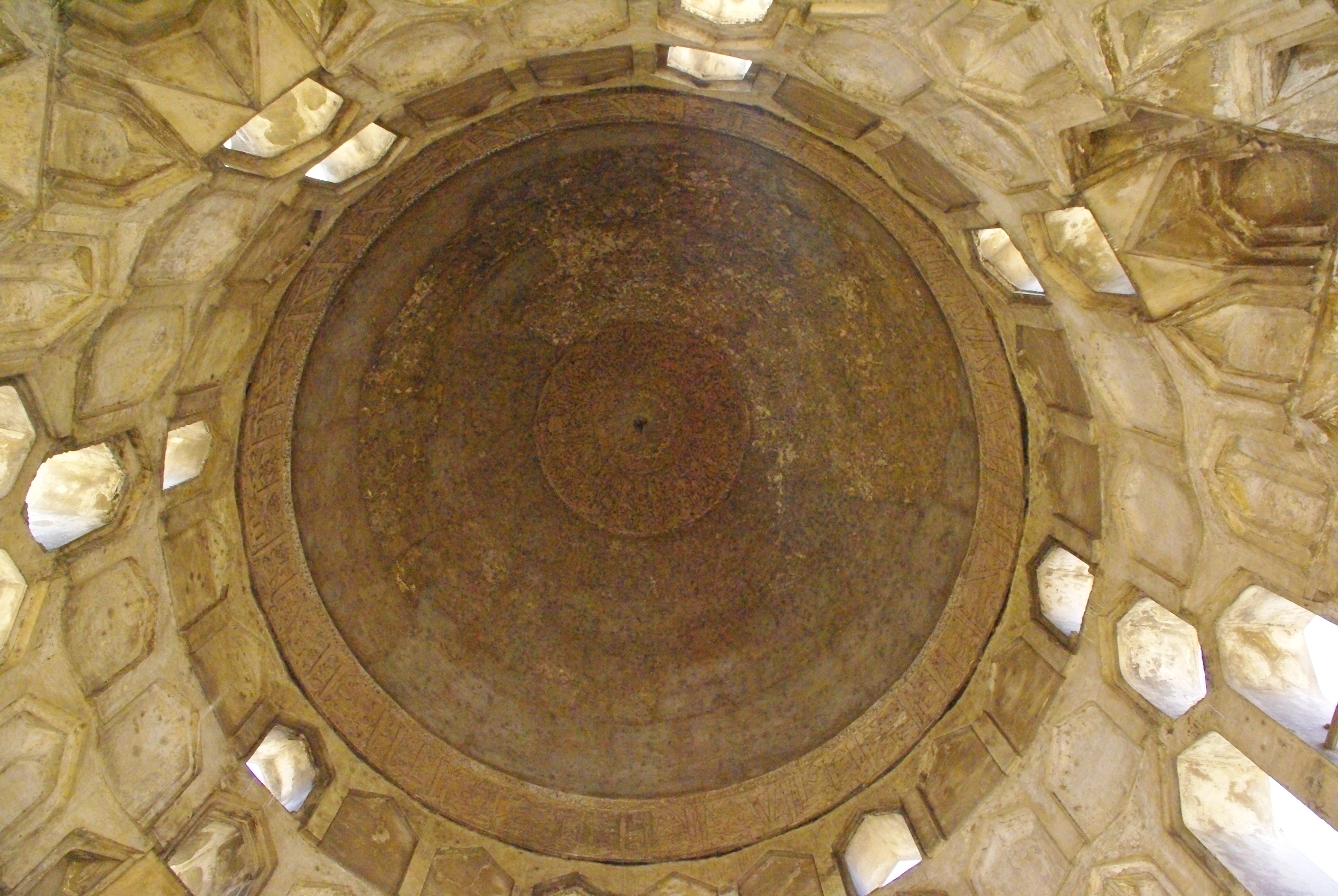 Interior ceiling of the sabil (ablution fountain) of the Ibn Tulun mosque in Cairo